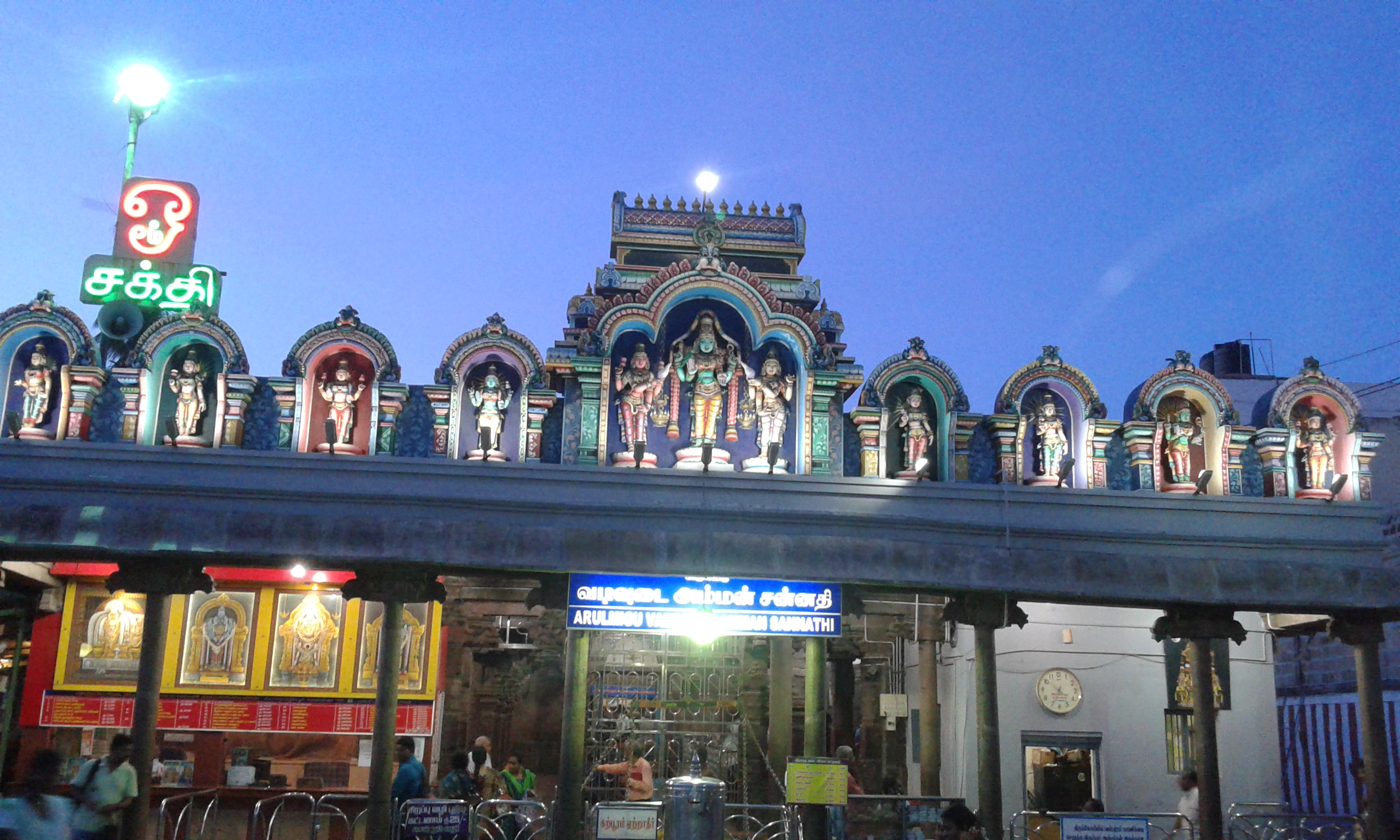 Thiuvotriyur